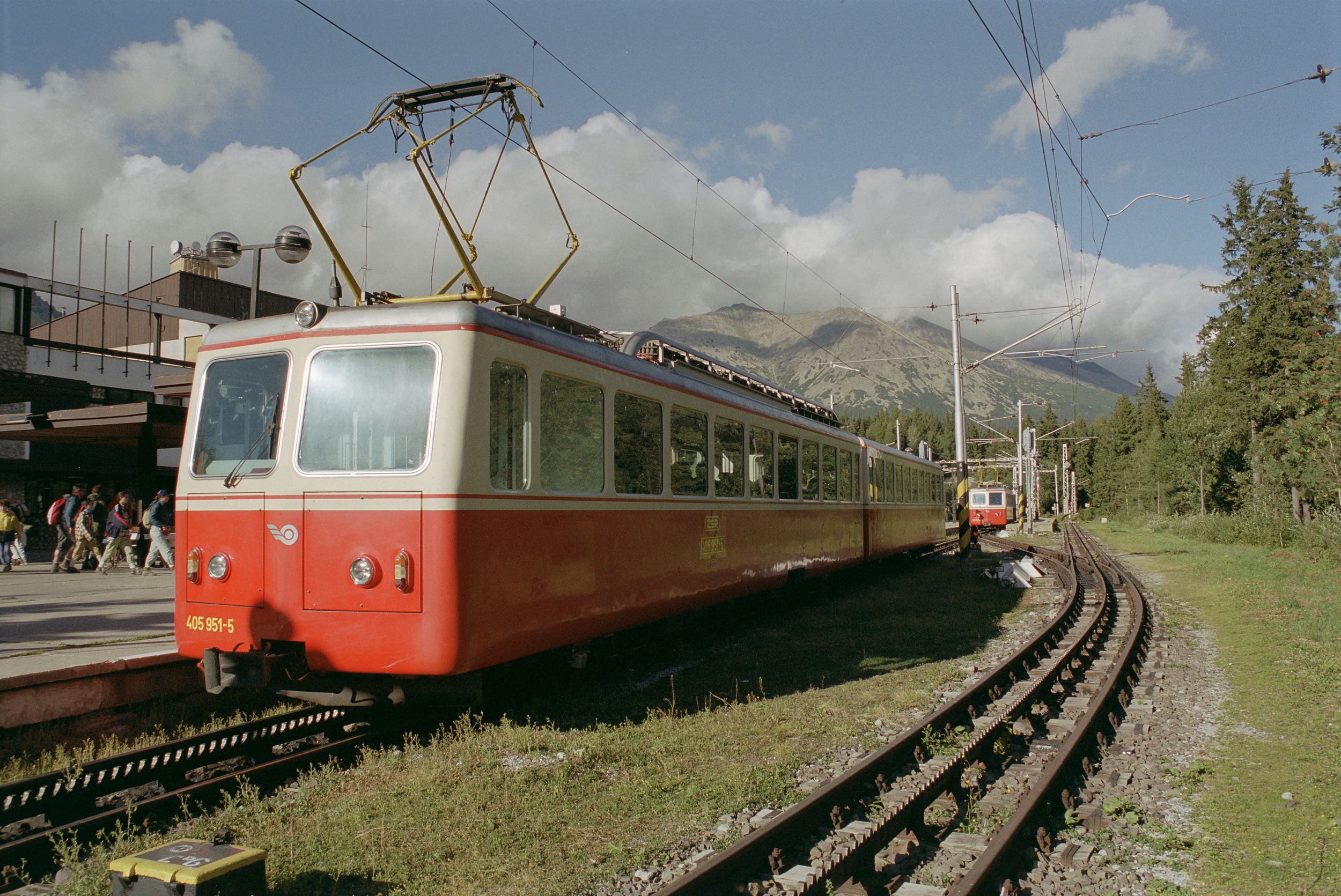 multiple unit 405.95 of the rack railway Štrba–Štrbské Pleso, at the trainstation Štrbské Pleso own picture, taken in summer 2000